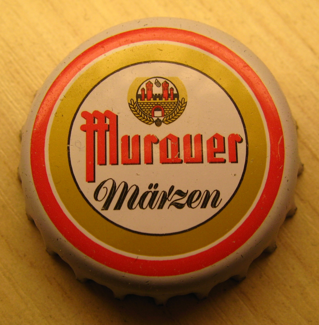 crown cork of a bottle of Murau Maerzen beer, state of Styria, Austria